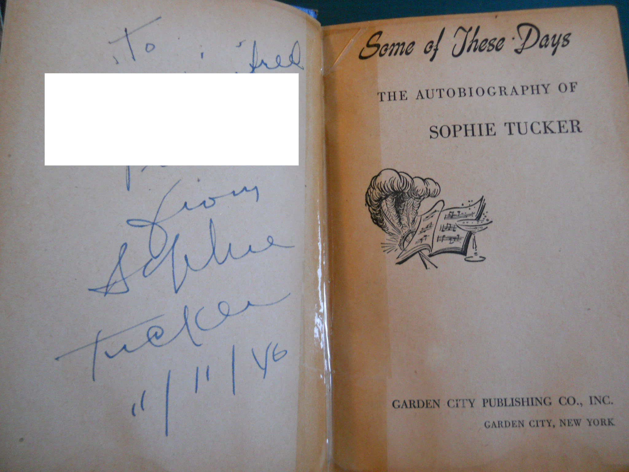 Legendary entertainer Sophie Tucker's autograph in a copy of her autobiography "Some Of These Days".